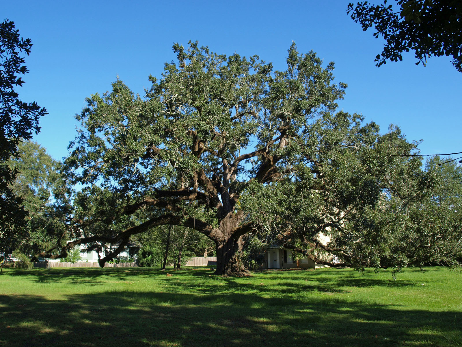 An oak tree outside the Protestant Children's Home in Mobile, Alabama